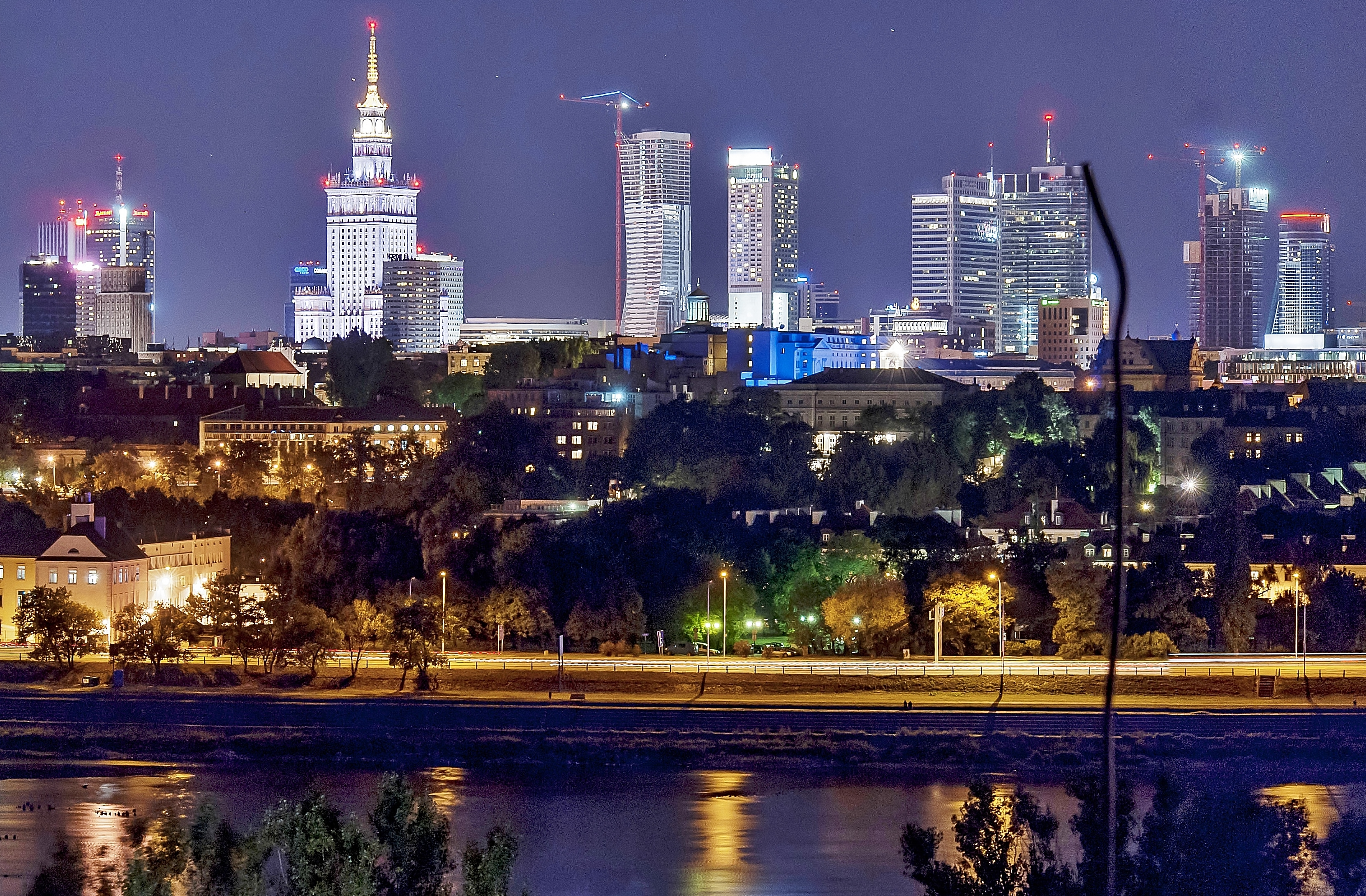 Panorama of Warsaw by night